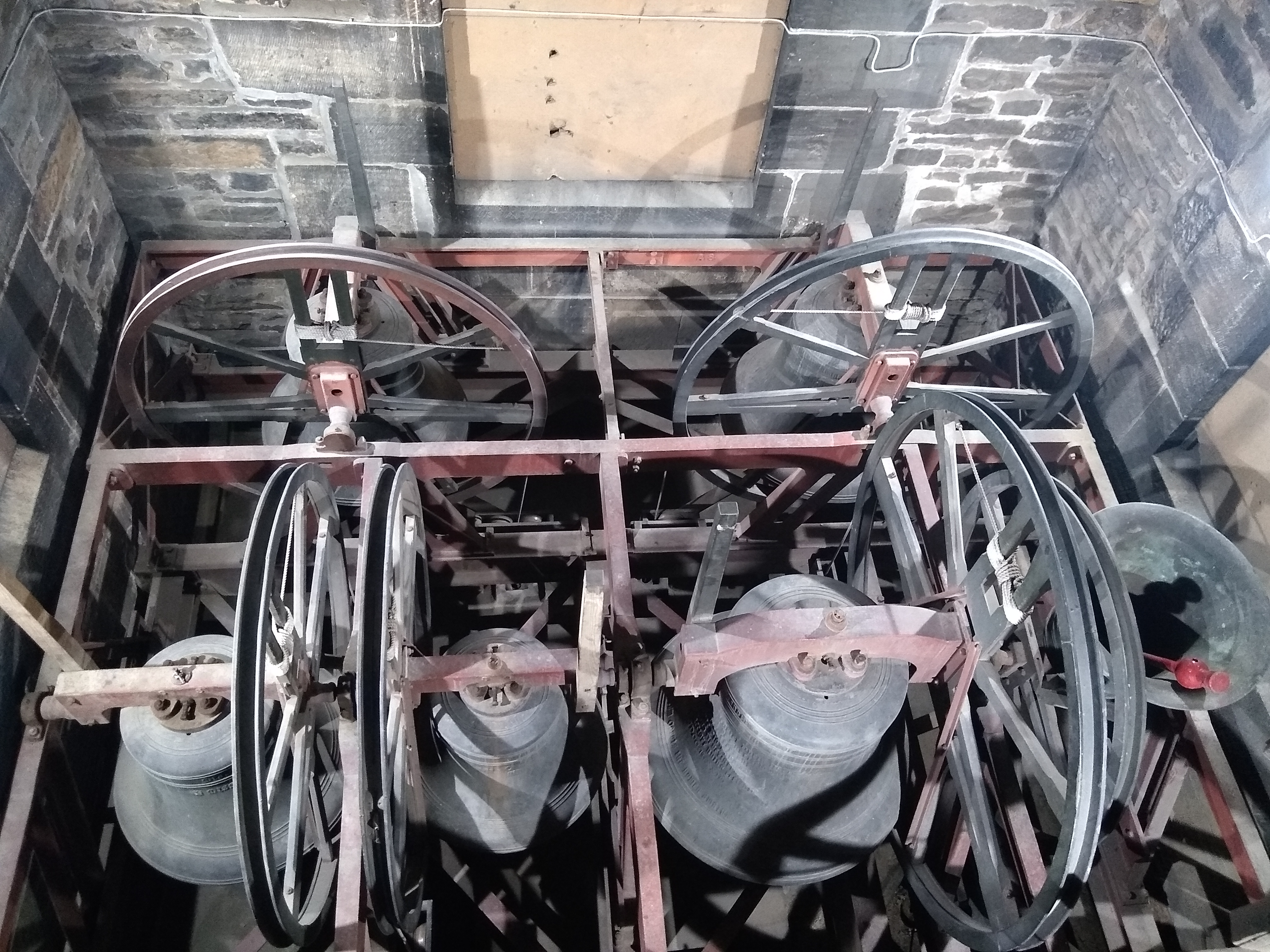 Interior of belfry of Cathedral Church of St Marie, Sheffield